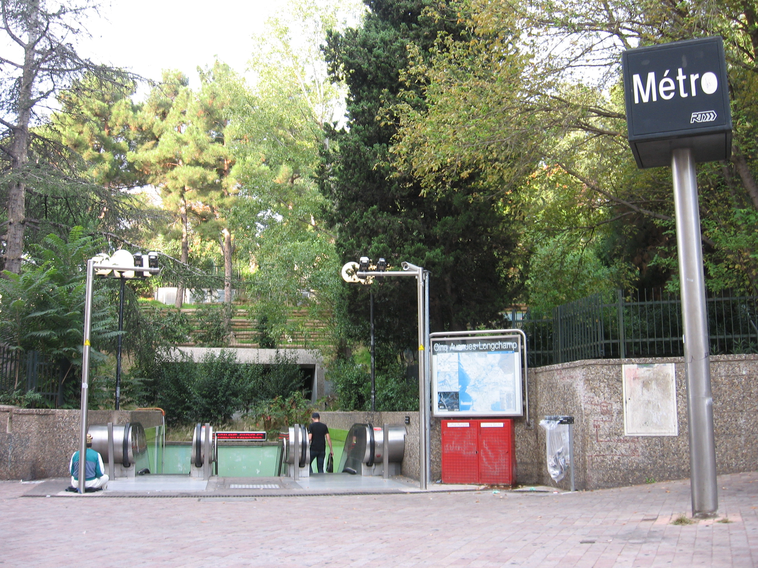 Cinq Avenues - Longchamp